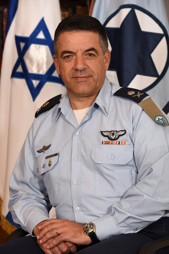 Current IAF Commander, Brig. Gen. Amikam Norkin